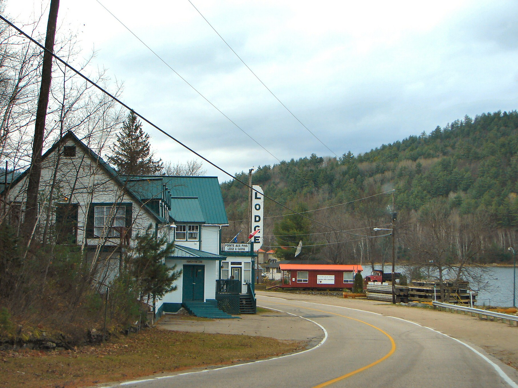 Rue Principale in Rapides-des-Joachims (also known as Swisha), Quebec, Canada